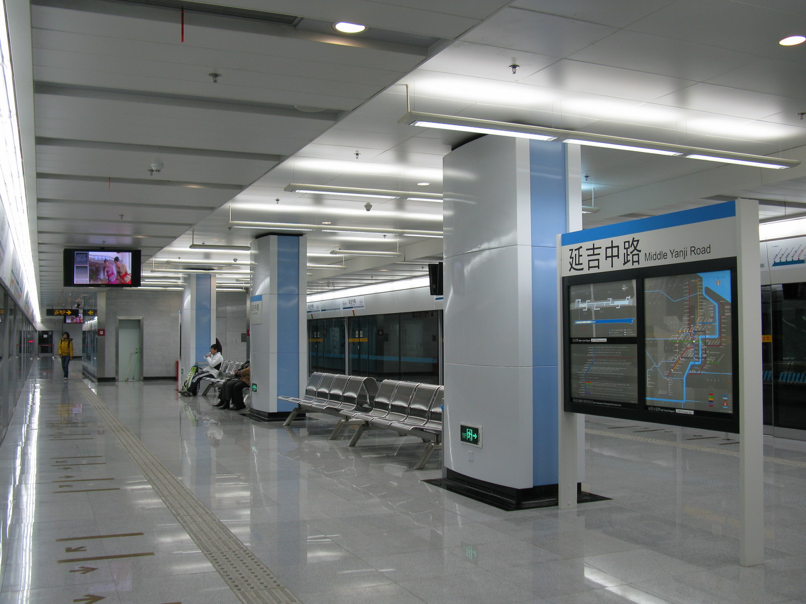 Line 8 Platform of Middle Yanji Road Station